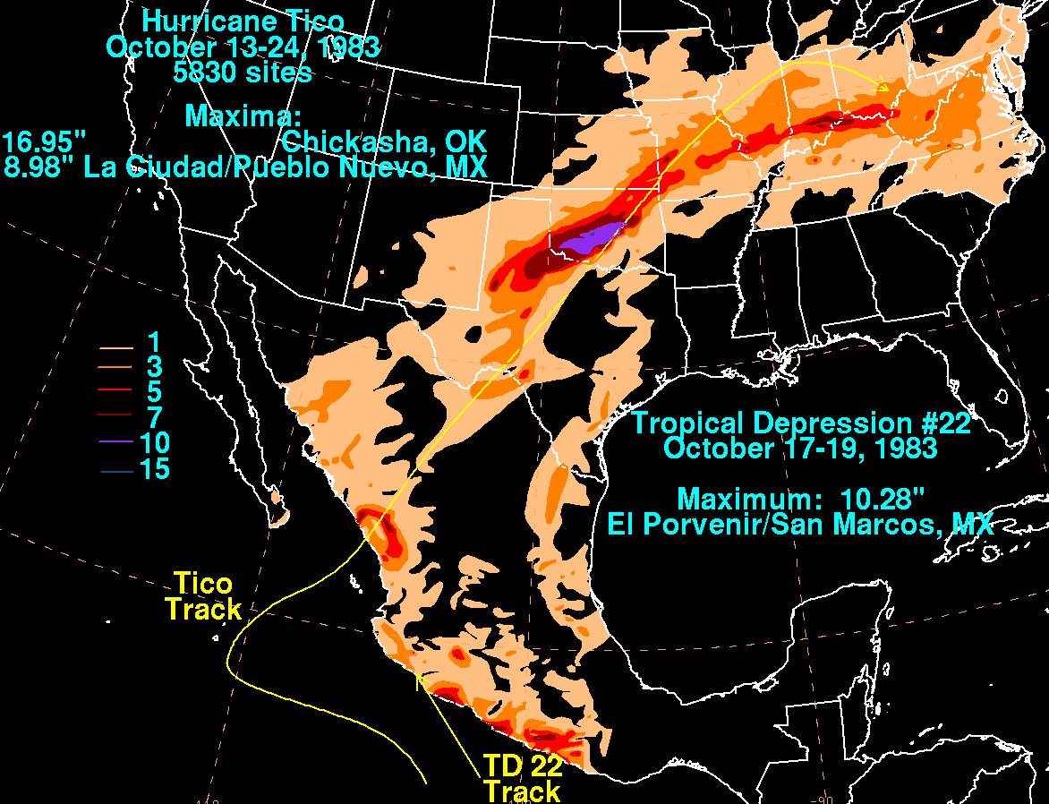 Storm total rainfall map of Hurricane Tico/Tropical Depression Twenty-Two during October 1983.